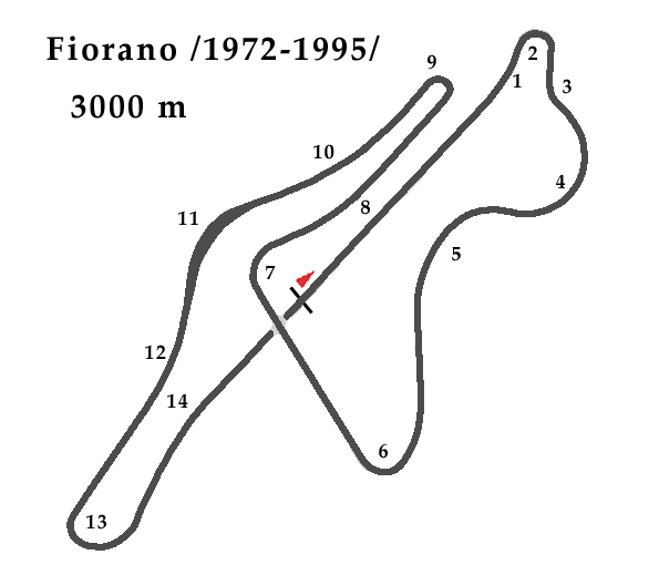 Fiorano Circuit is the private track owned by Ferrari (1972 - 1995)